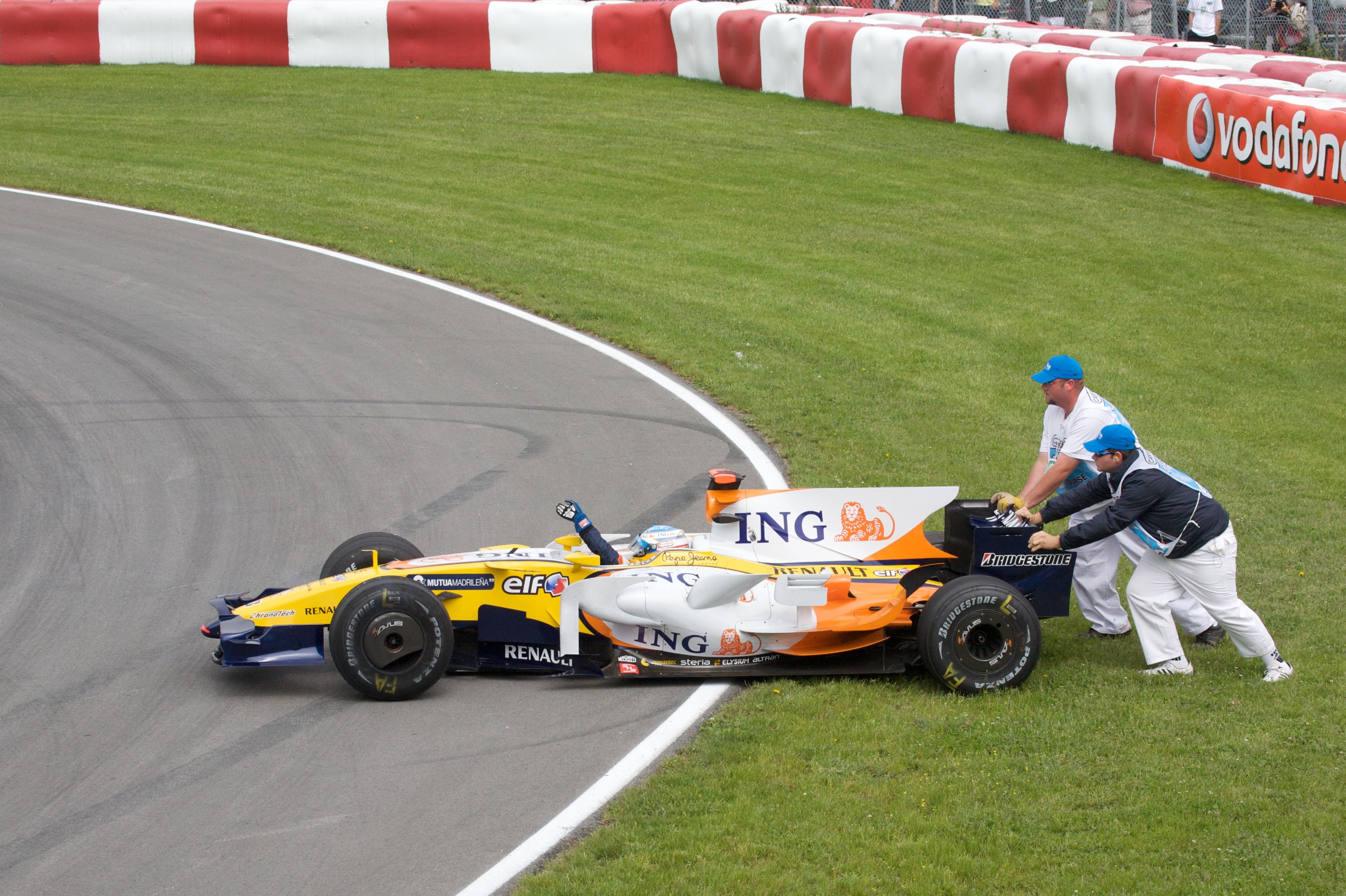 Alonso spun at turn 2 during practice. He then strangely turn and beached himself on the grass. His brakes were smoking, and the marshalls couldn't budge him.